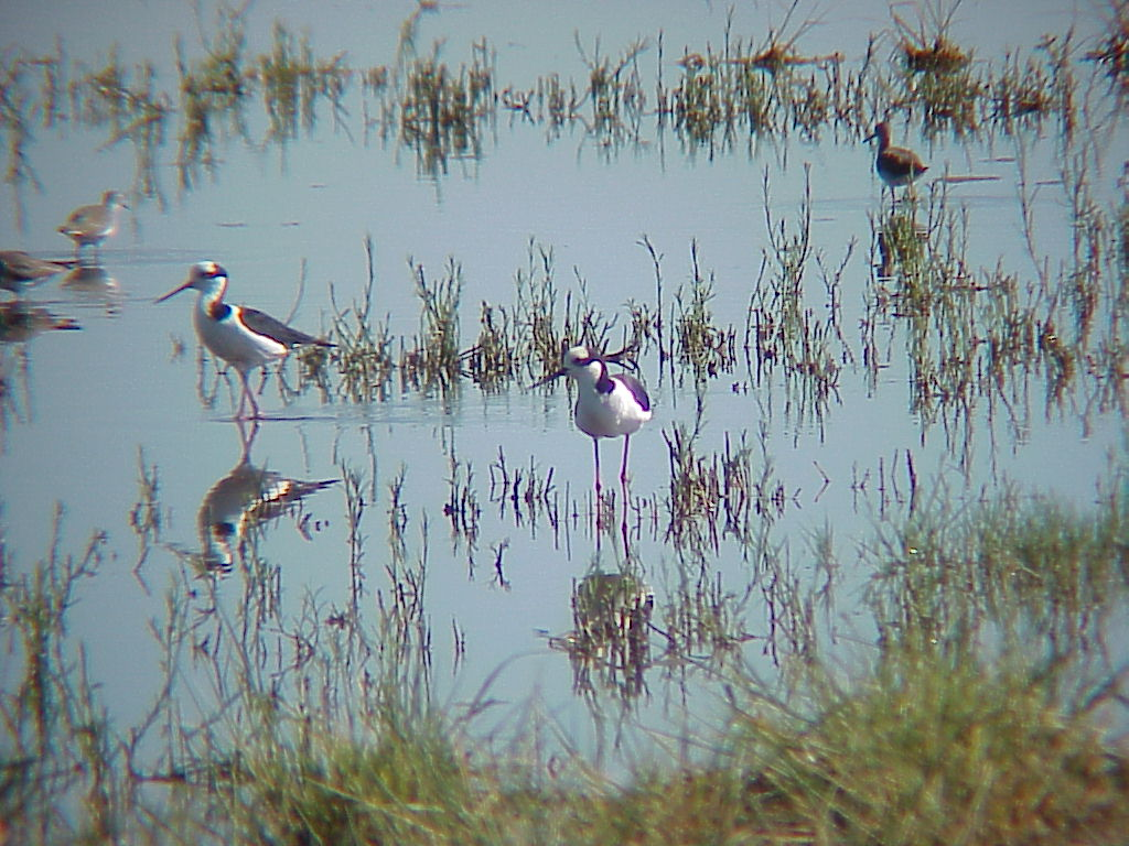 Bird, Himantopus melanurus. Laguna La Burra, Las Perdices, Córdoba, Argentina